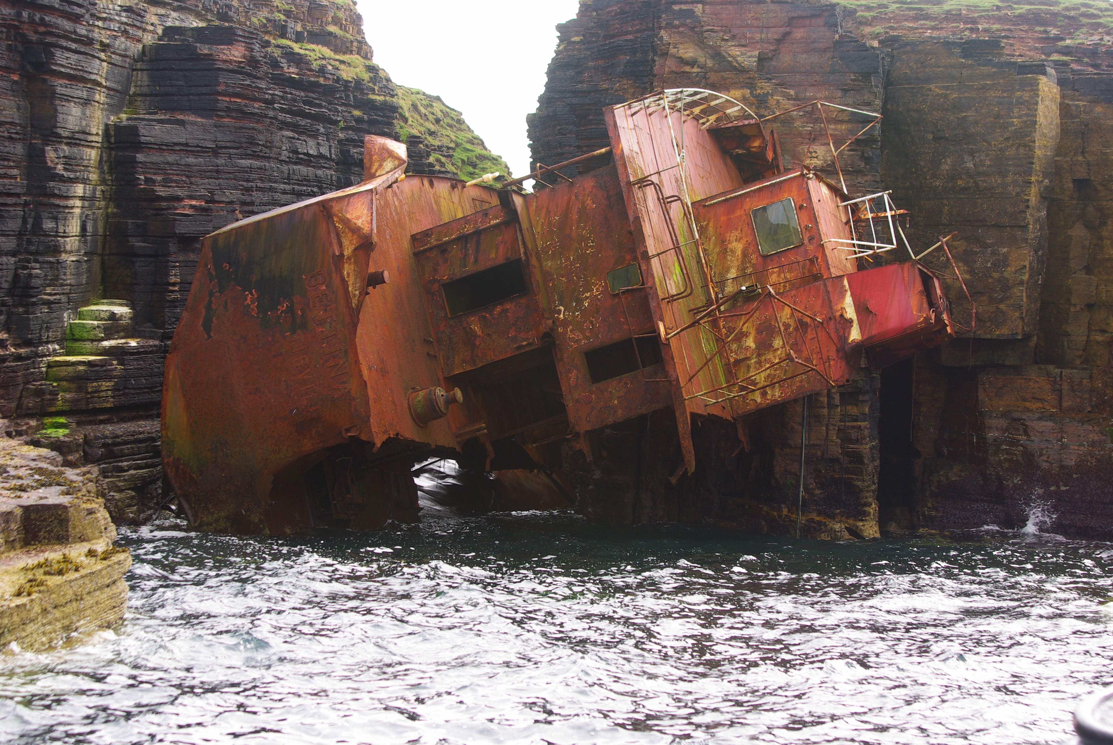 The Danish coaster Bettina Danica shipwrecked in 1994 on Stroma Island.